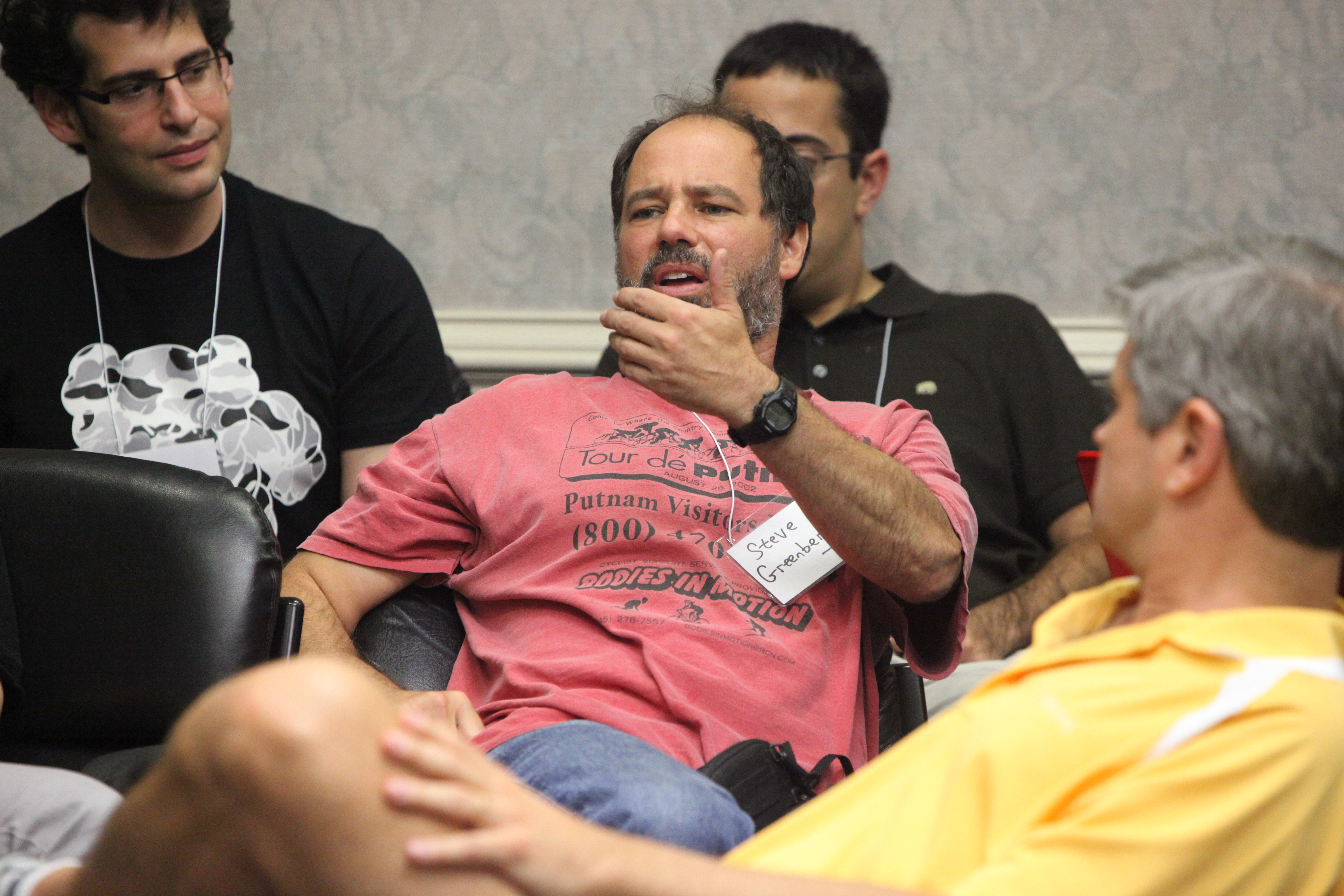 Steve Greenberg, head of S-Curve Records, at Kinnernet May 9, 2009.